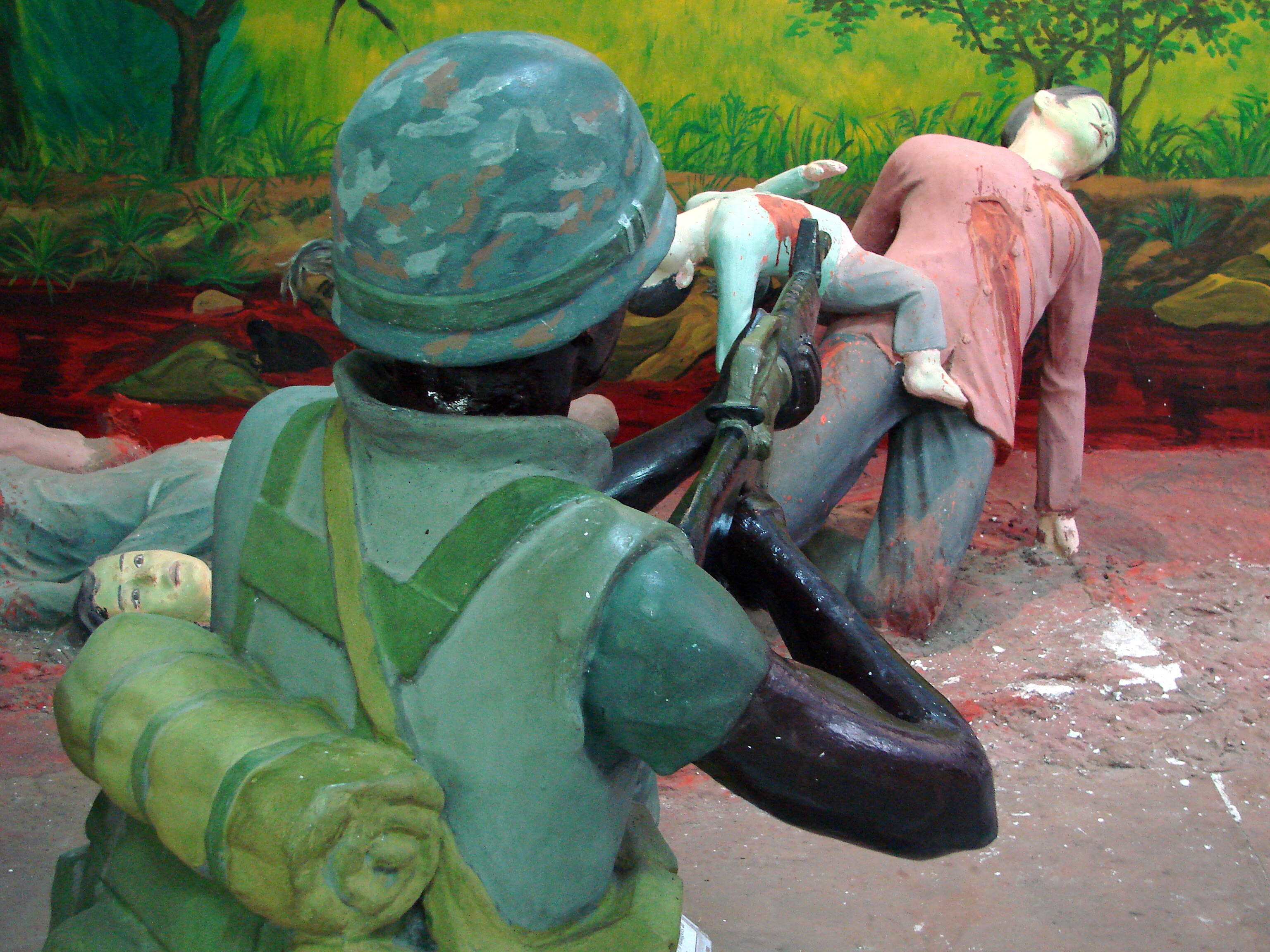 A diorama in the museum of the My Lai massacre memorial site, near Quang Ngai, Vietnam, depicts the up-close nature of the massacre. June 2009.